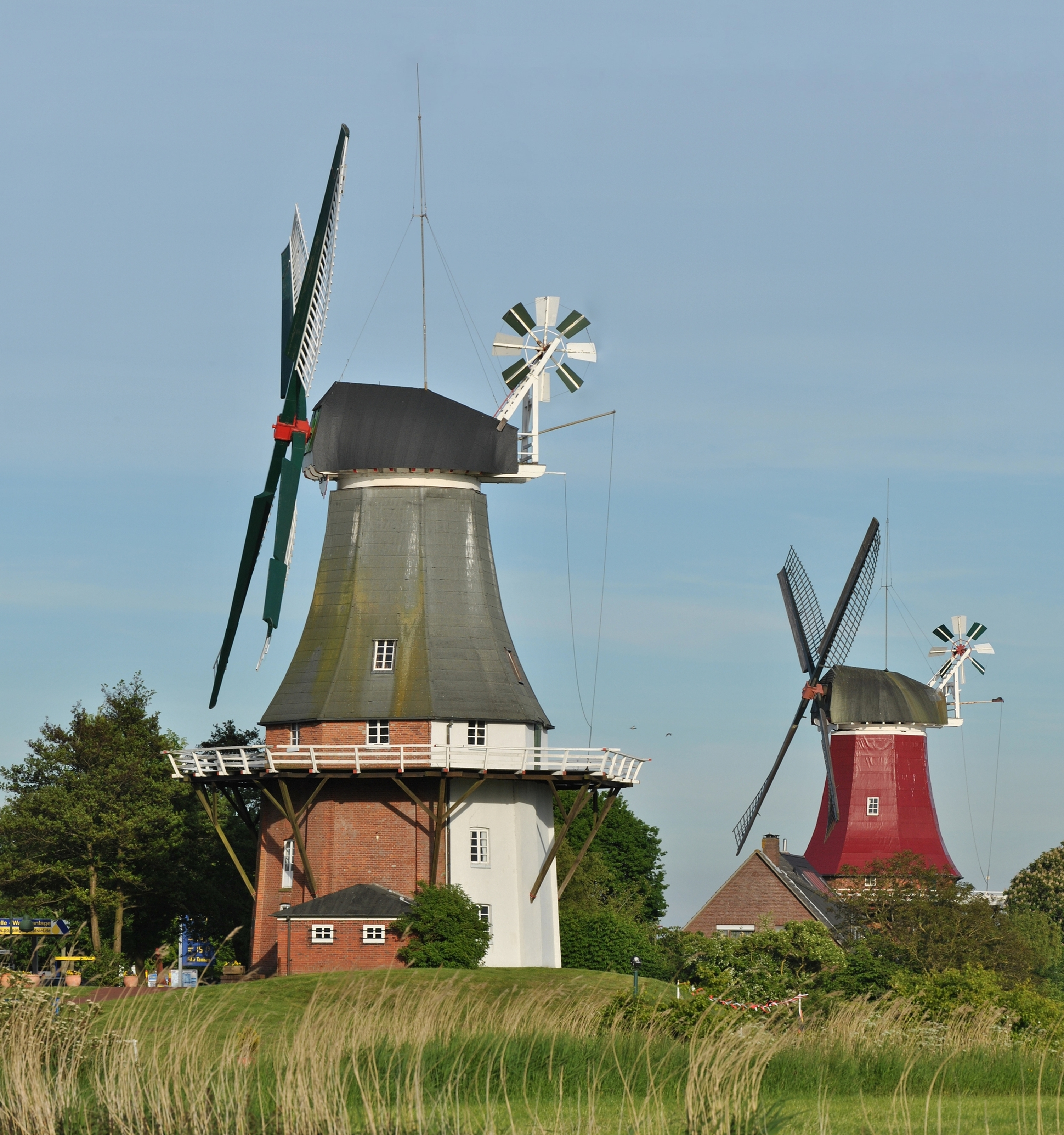 The twin mills of Greetsiel, East Frisia, Germany, seen from west. It's a stitching of two images, made during an evening in June 2010.